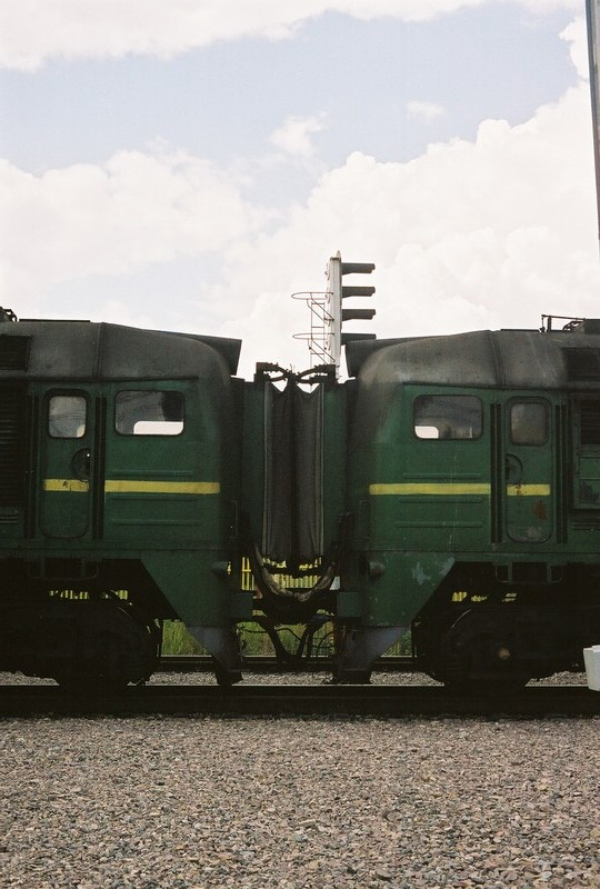 Joint of articulated double M62 diesel of Belarussian Railways in Terespol, Poland.